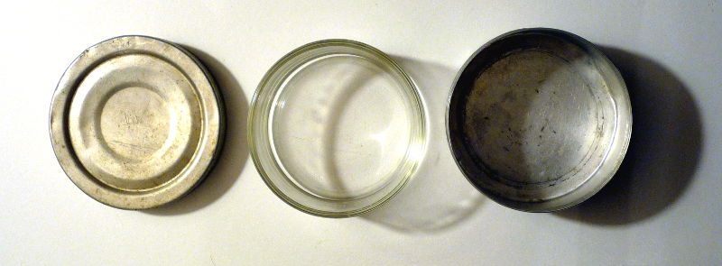 Butter dish of a German soldier (WWII; made of glass with aluminium can with screw cap)